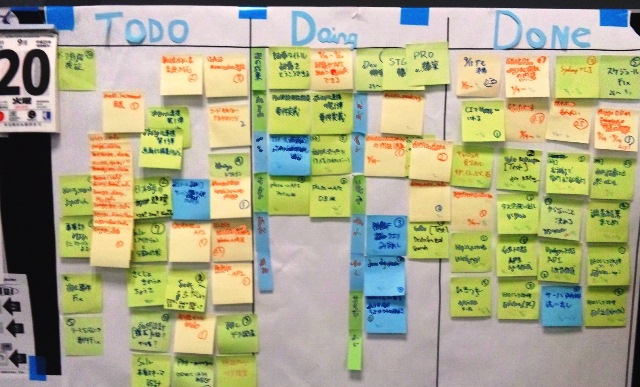 This is simple task kanban for task management.